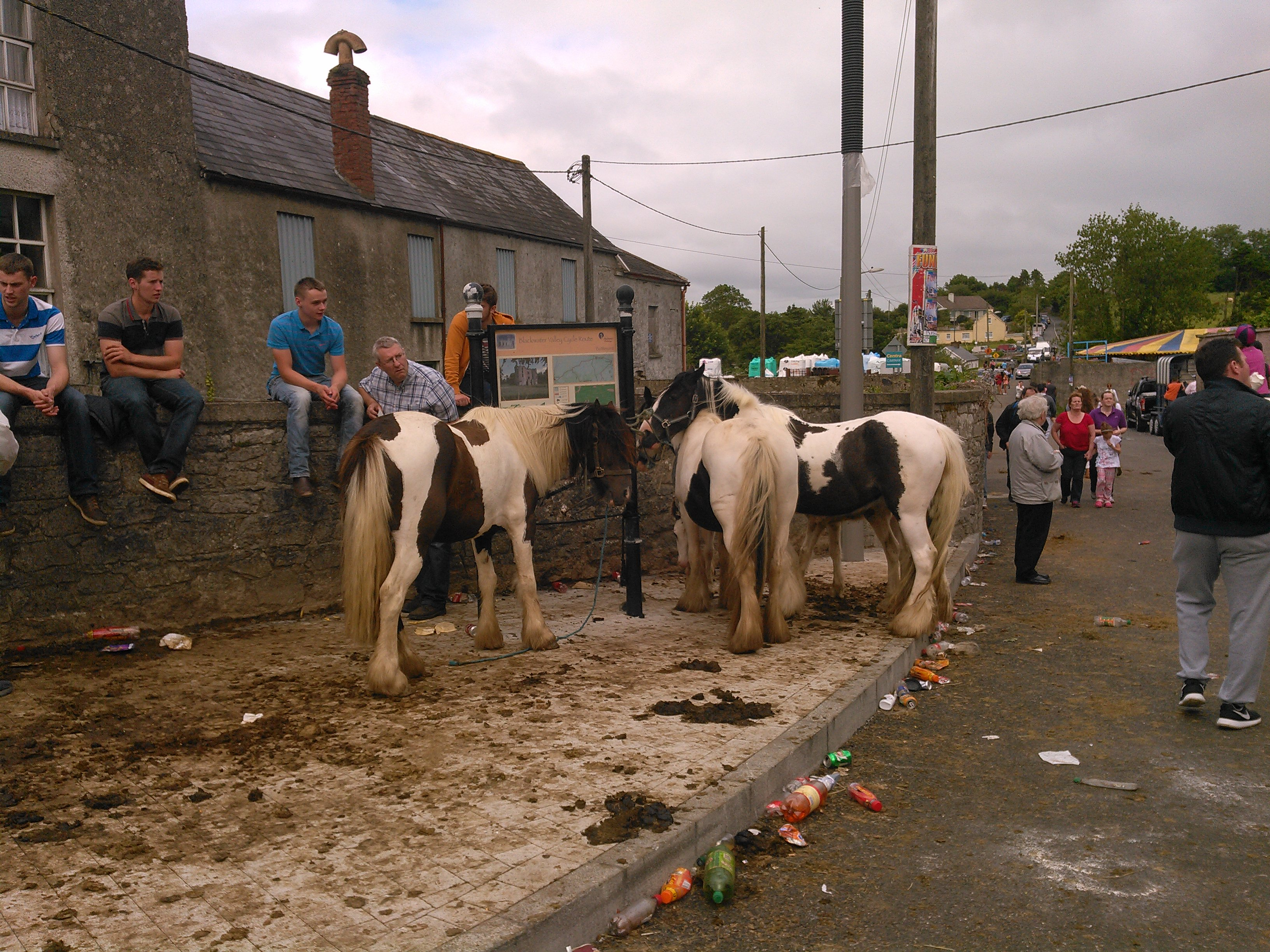 Cahirmee horse fair 2015 Buttevant